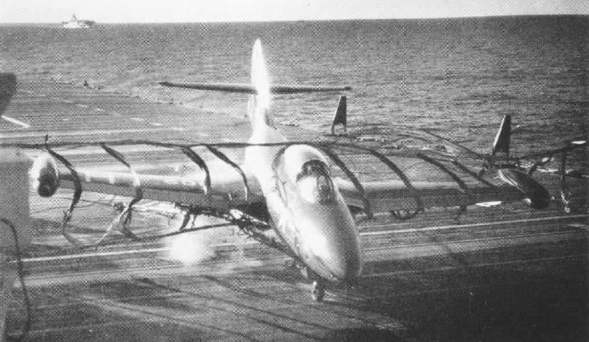 A Grumman F9F-2 Panther of fighter squadron VF-151 Black Knights hitting the barrier aboard the U.S. aircraft carrier USS Boxer (CVA-21) in 1953. VF-151 was assigned to Air Task Group One (ATG-1) for a deployment to Korea from 30 March to 28 November 1953. The squadron would be redesignated VA-23 in 1959.